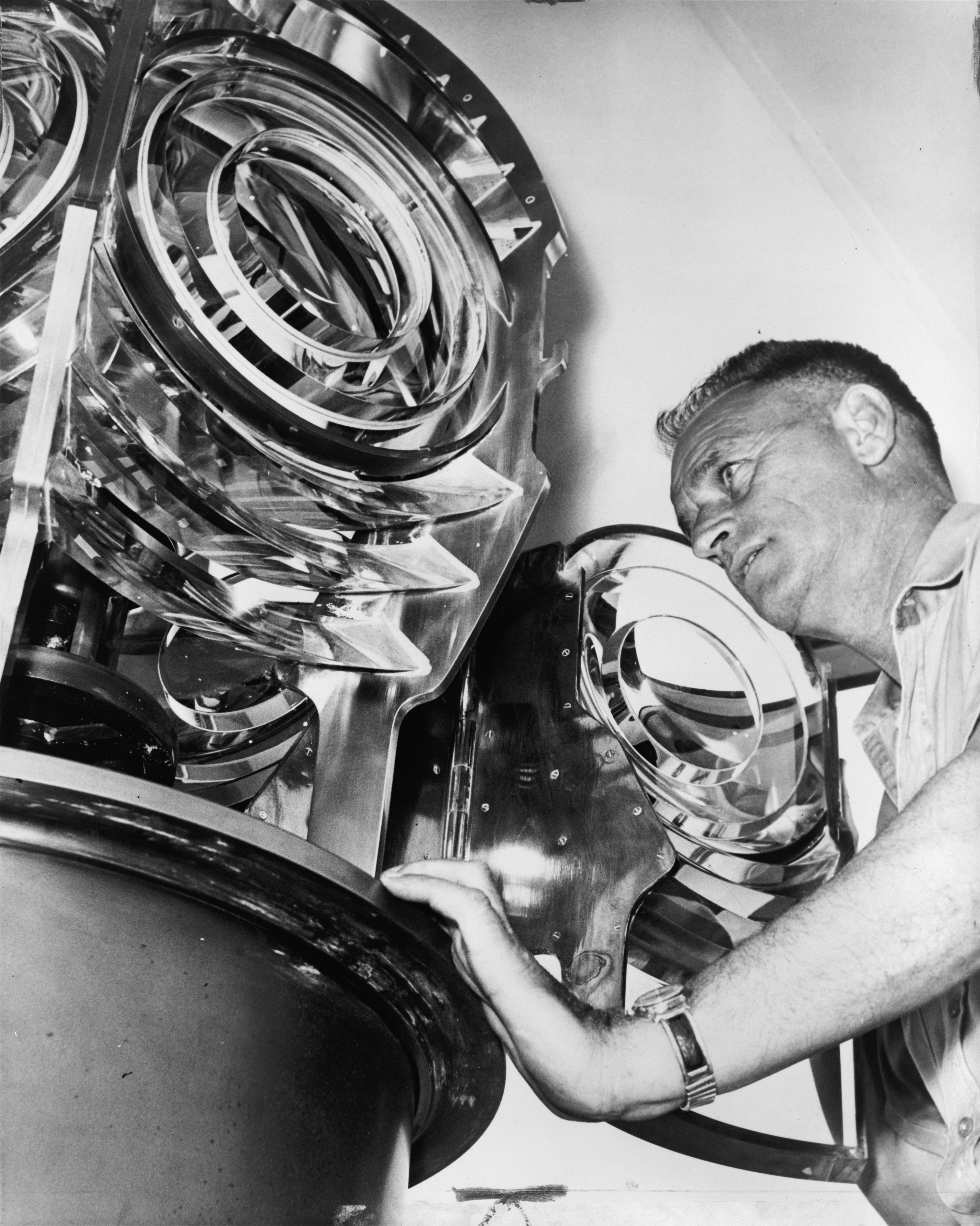 Frank Schubert polishes the station's lens once a week. The flashing red signal, which operates from a half hour before sunset until a half hour before sunrise, is a reference point for all traffic using the harbor.